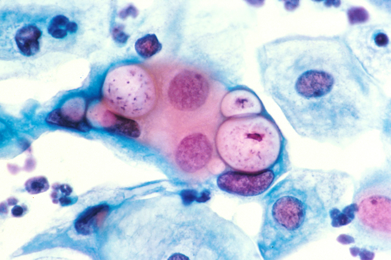 Title: Pathology: Histology: Pap Smear Description: Human pap smear showing clamydia in the vacuoles at 500x and stained with H&E. Subjects (names): Topics/Categories: Pathology -- Histology Type: Color Slide Source: Dr. Lance Liotta Laboratory Author: Unknown photographer/artist AV Number: AV-8803-3302 Date Created: March 1988 Date Entered: 1/1/2001 Access: Public